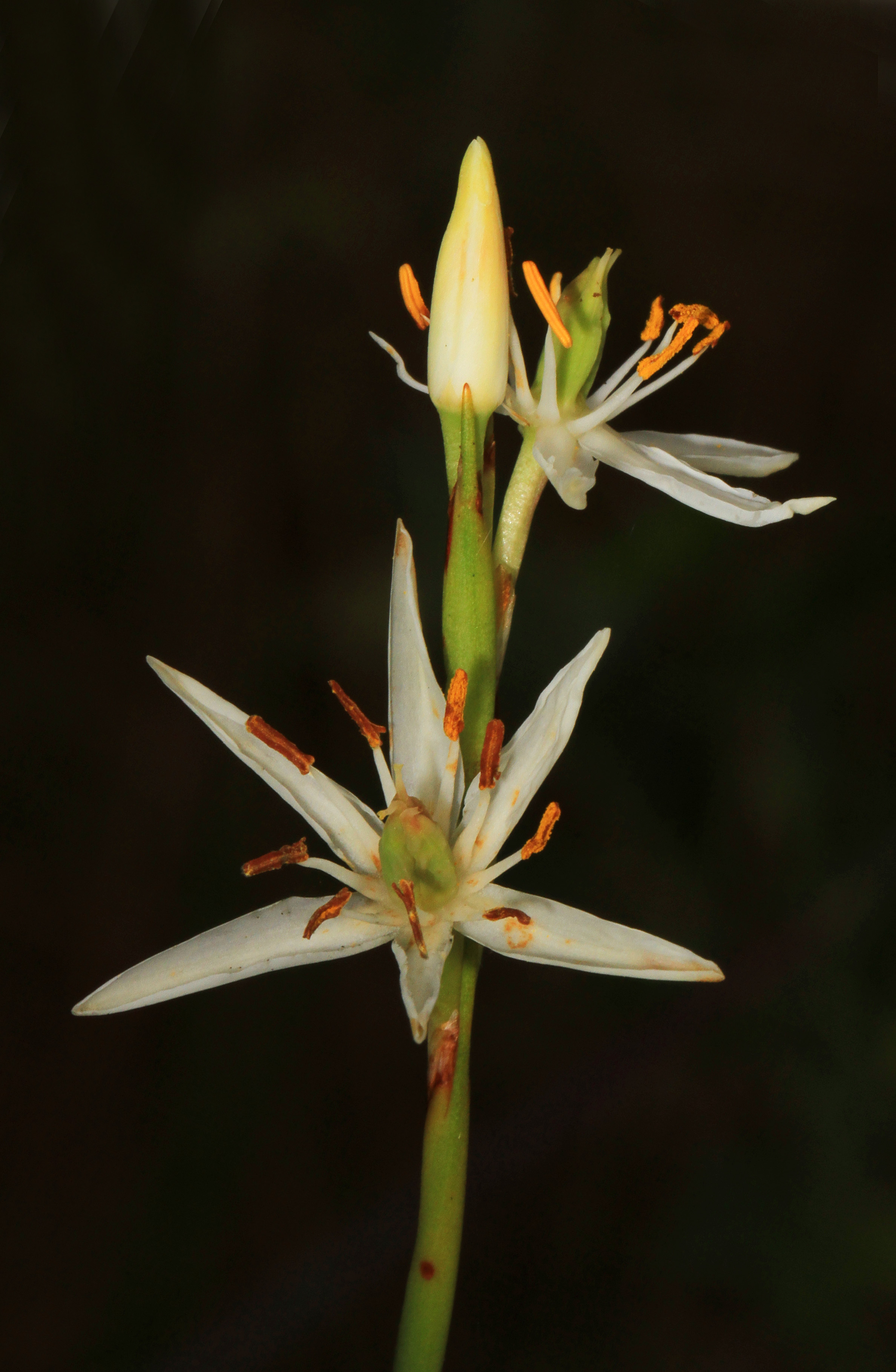 Rush Featherling - Pleea tenuifolia, Green Swamp, Supply, North Carolina.